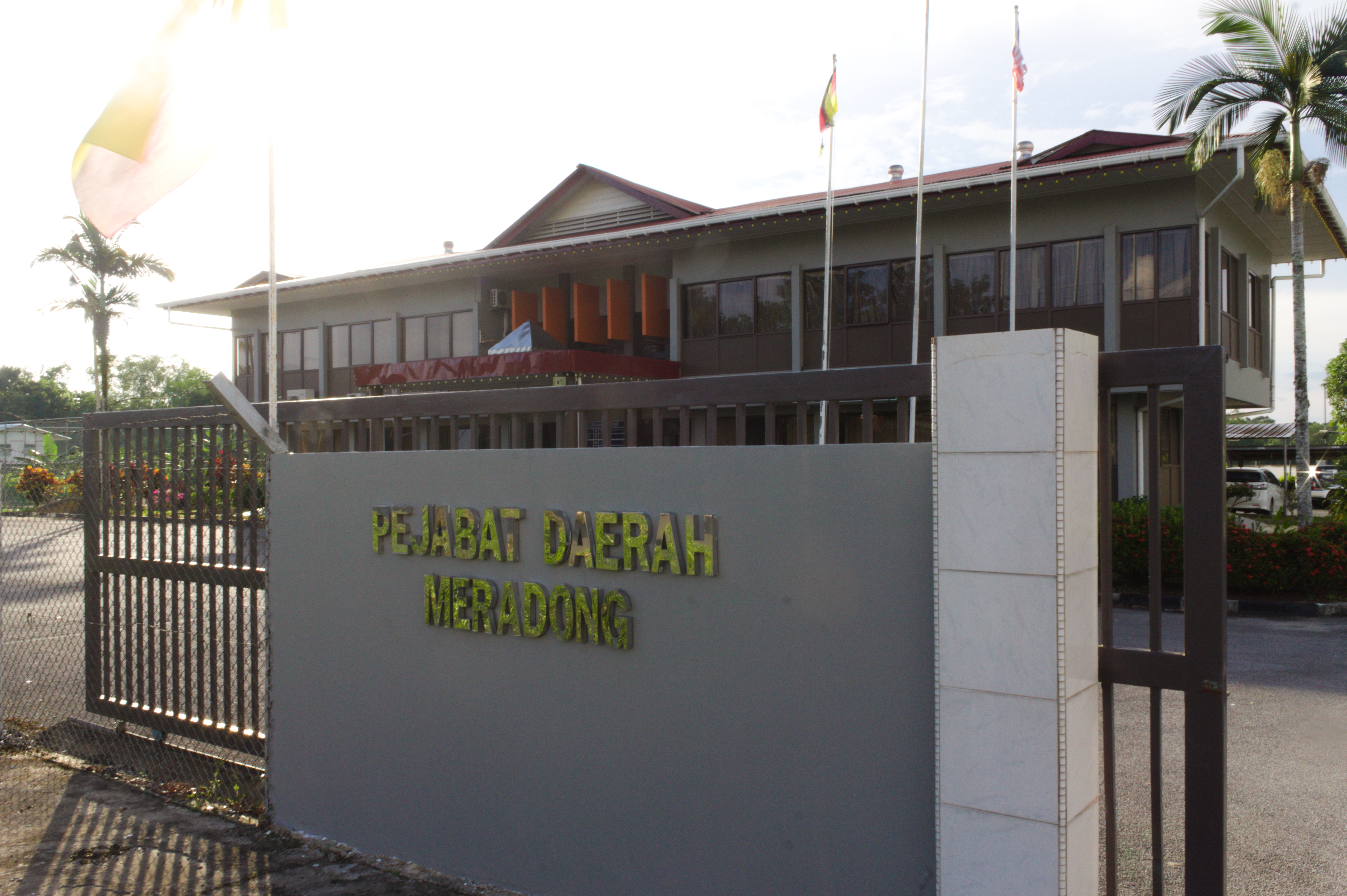 Meradong District Office at Bintangor. Magistrate court is also housed inside this building.